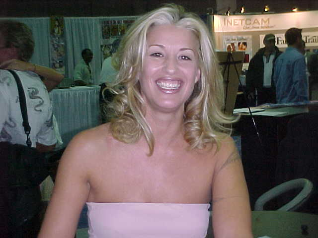 At CES January 6-9, 2000